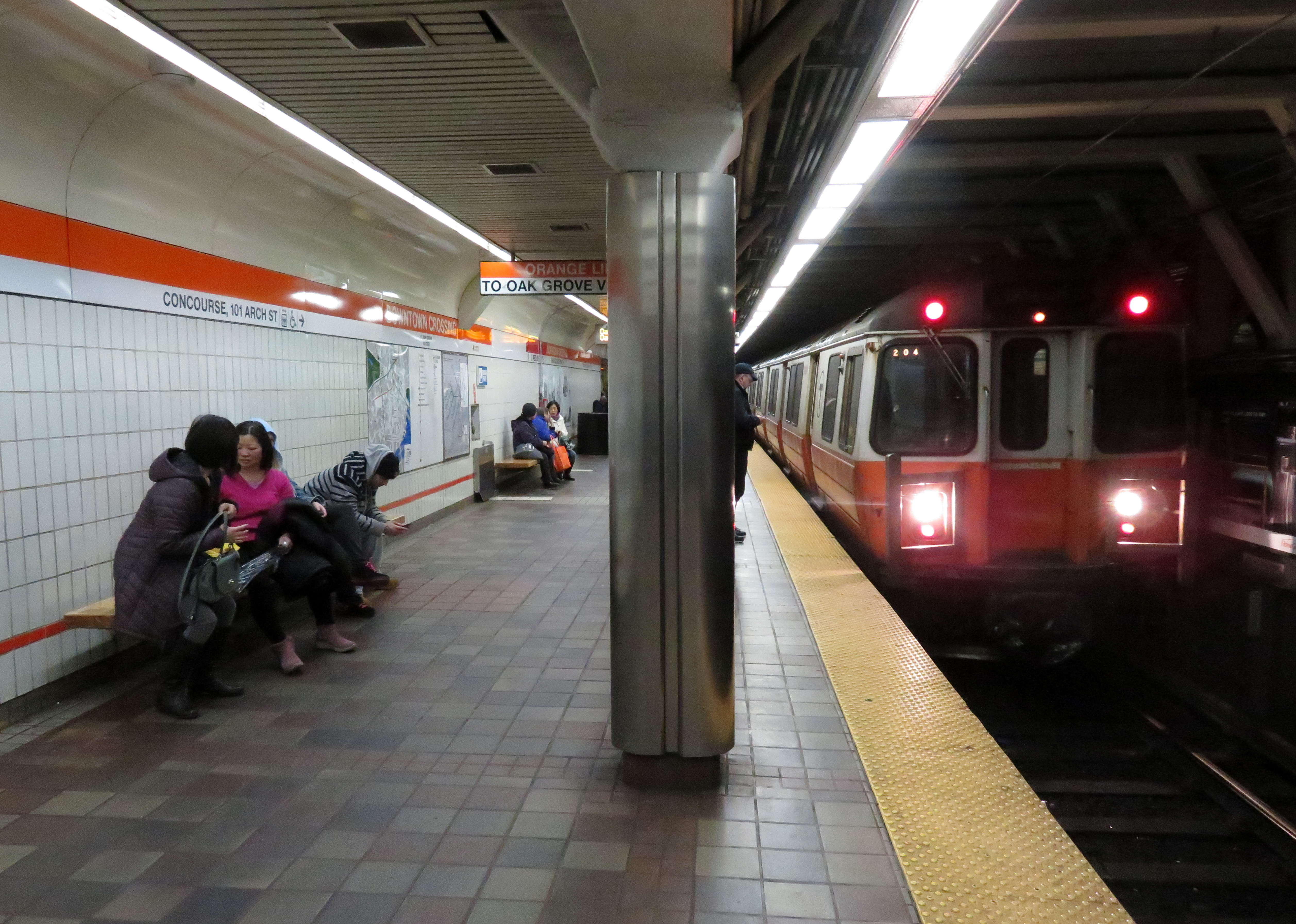 A northbound Orange Line train at Downtown Crossing station in December 2018